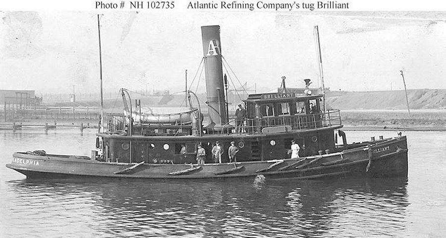 Commercial tug SS Brilliant, possibly while at Phladelphia, Pennsylvania. She was registered for possible World War I United States Navy service as USS Brilliant (ID-1329) but never commissioned.